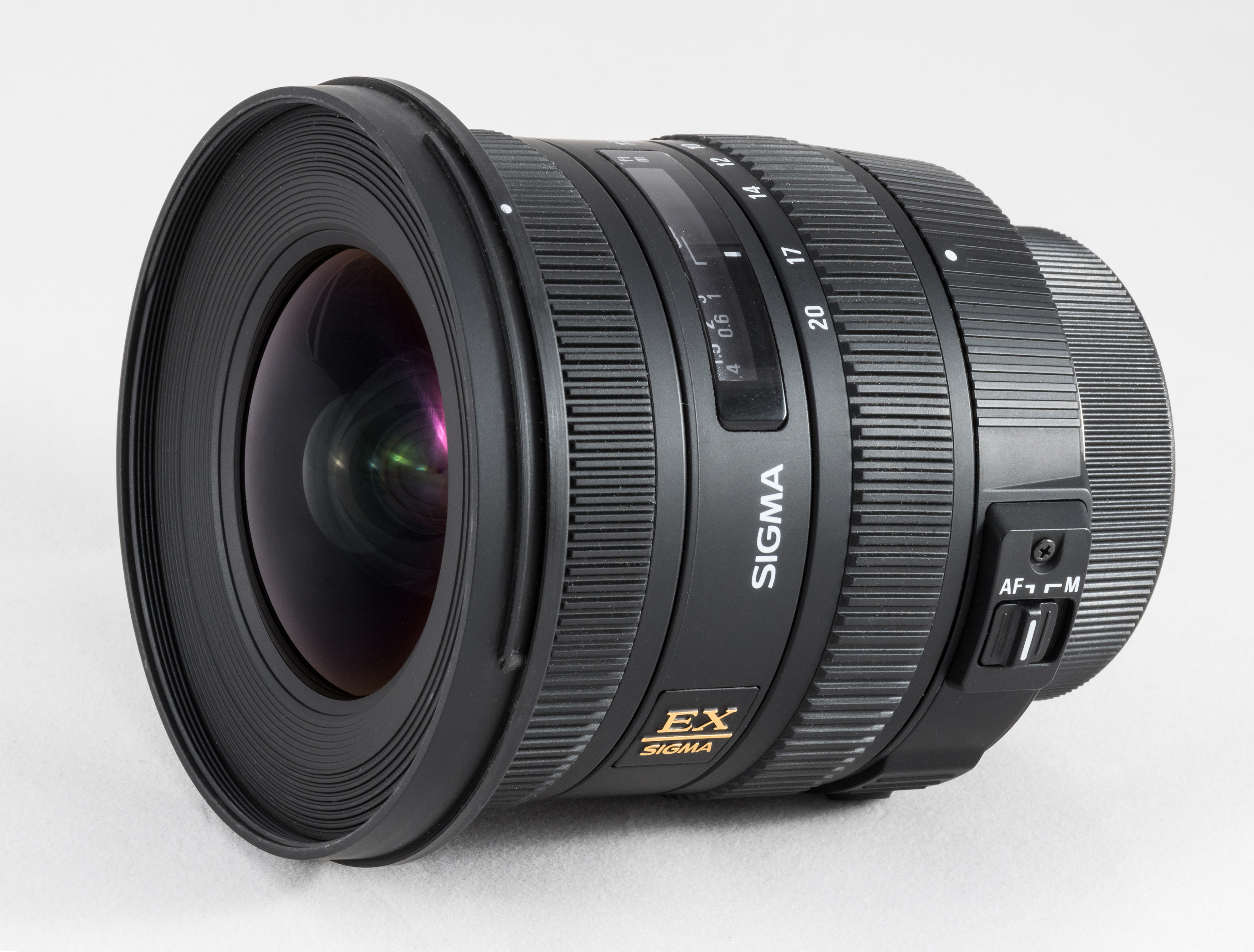 Sigma 10-20 mm f/3.5 EX DC HSM lens